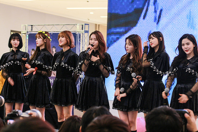 Oh My Girl at fan signing on January 21, 2018